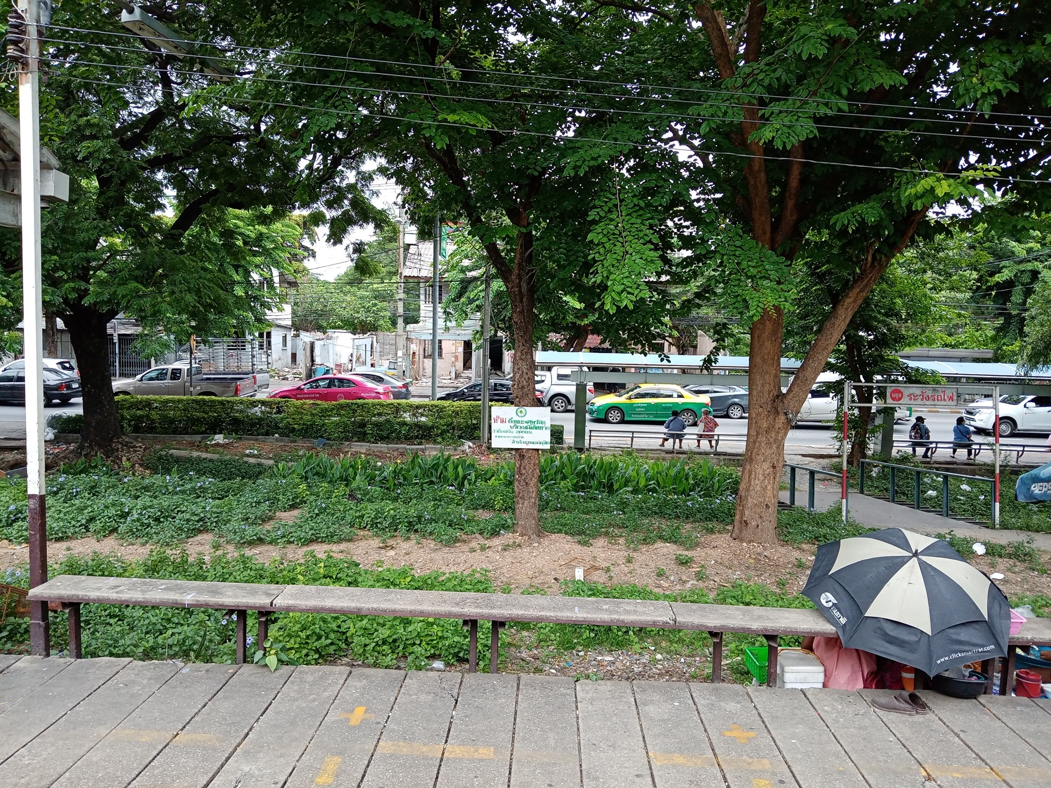 Sawankhalok rd. (taken from train)